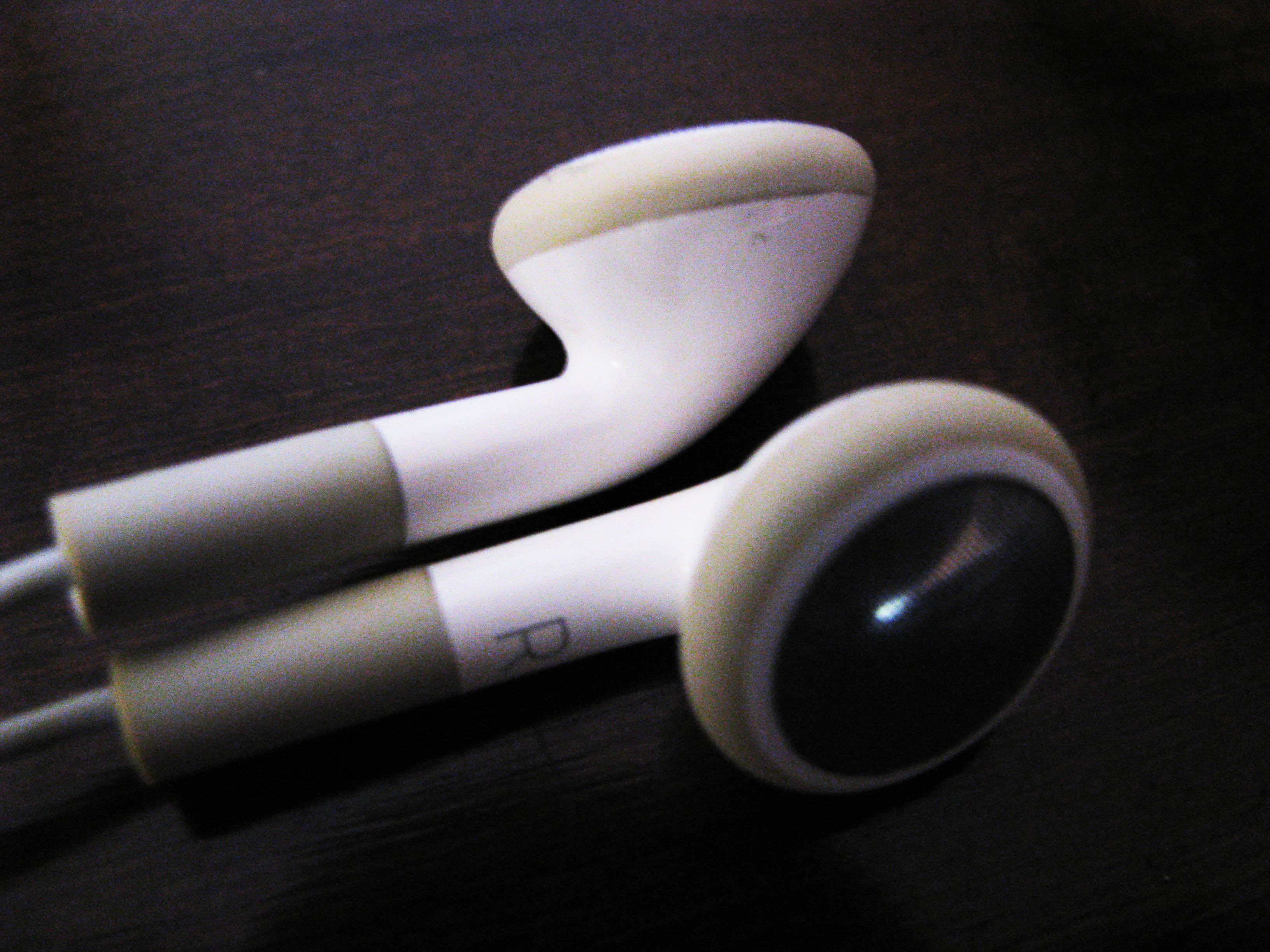 iPod Shuffle Earphones